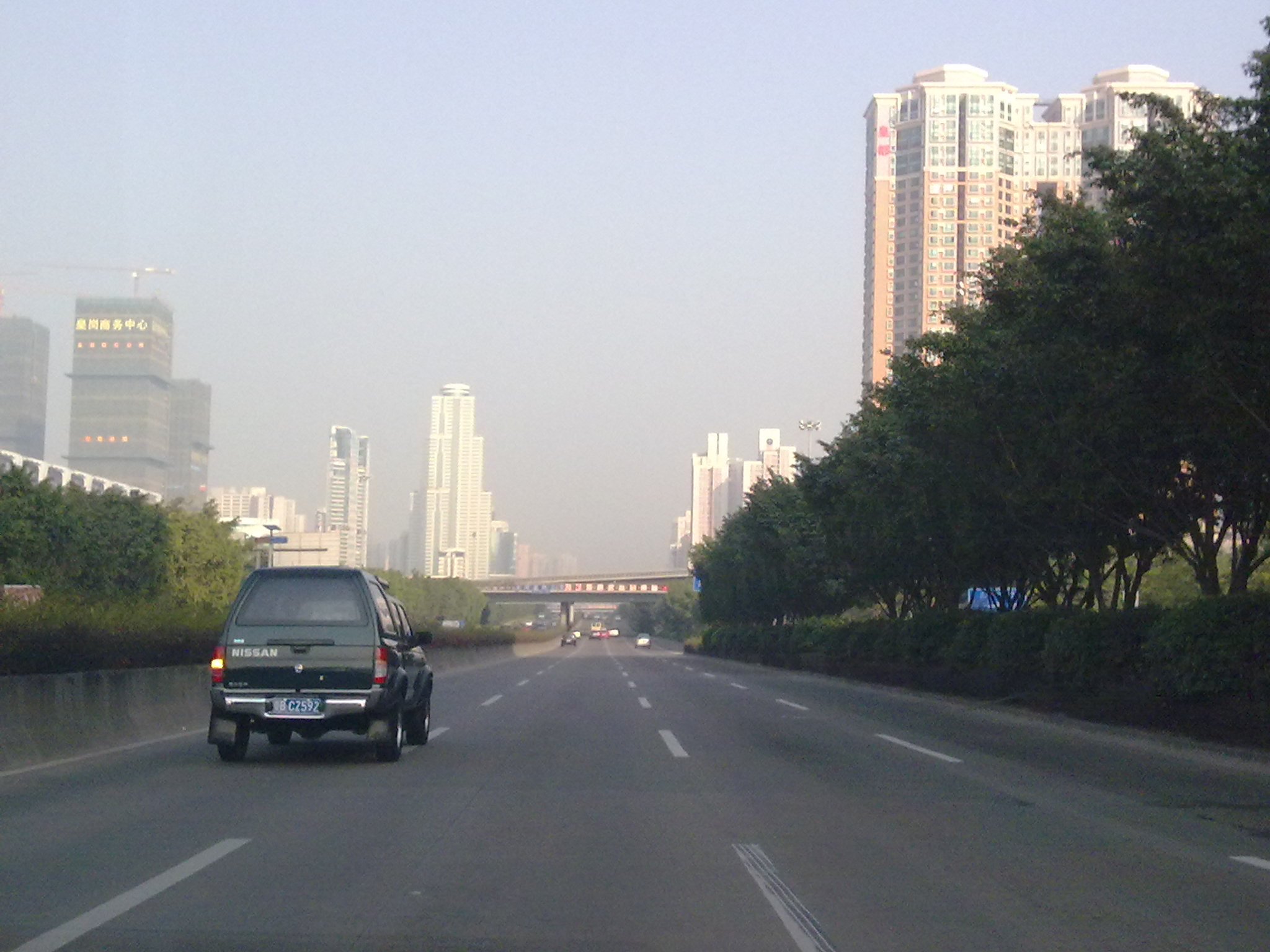 Bin He Blvd